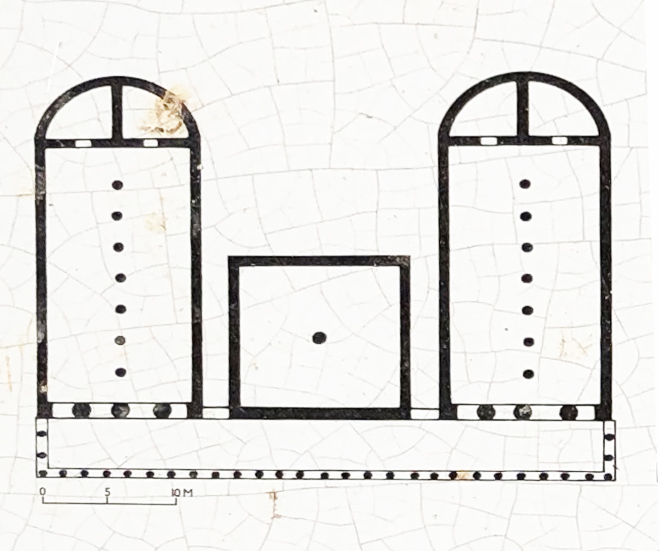 Bouleuterion in Olympia